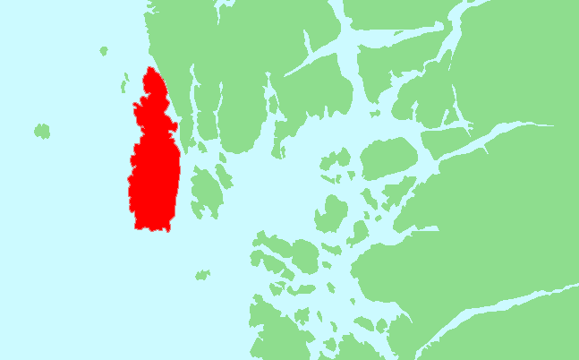 Locator map of Karmøy, Norway